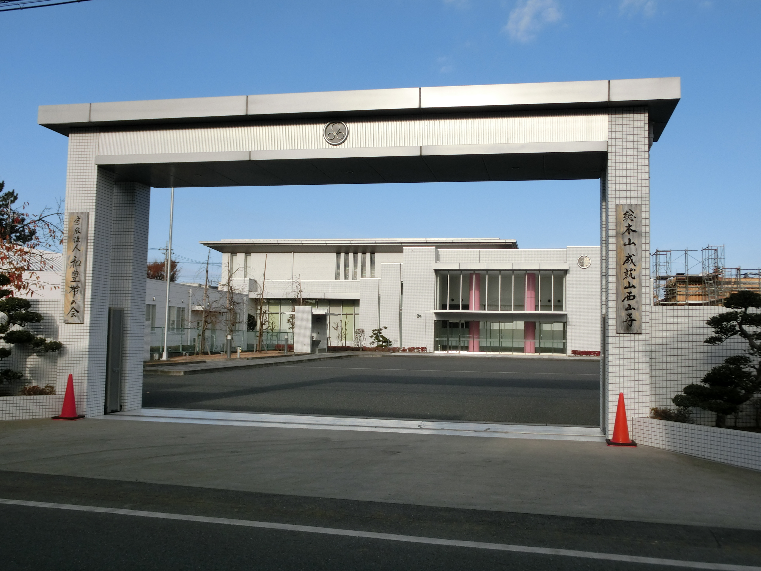 Wahoutai no kai Headquarters